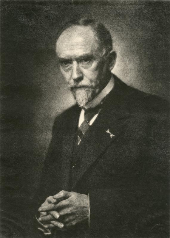 Dutch professor geology Gustaaf Molengraaff. Photograph by Franz Ziegler (1893-1939). Photo made between 1925 and 1939